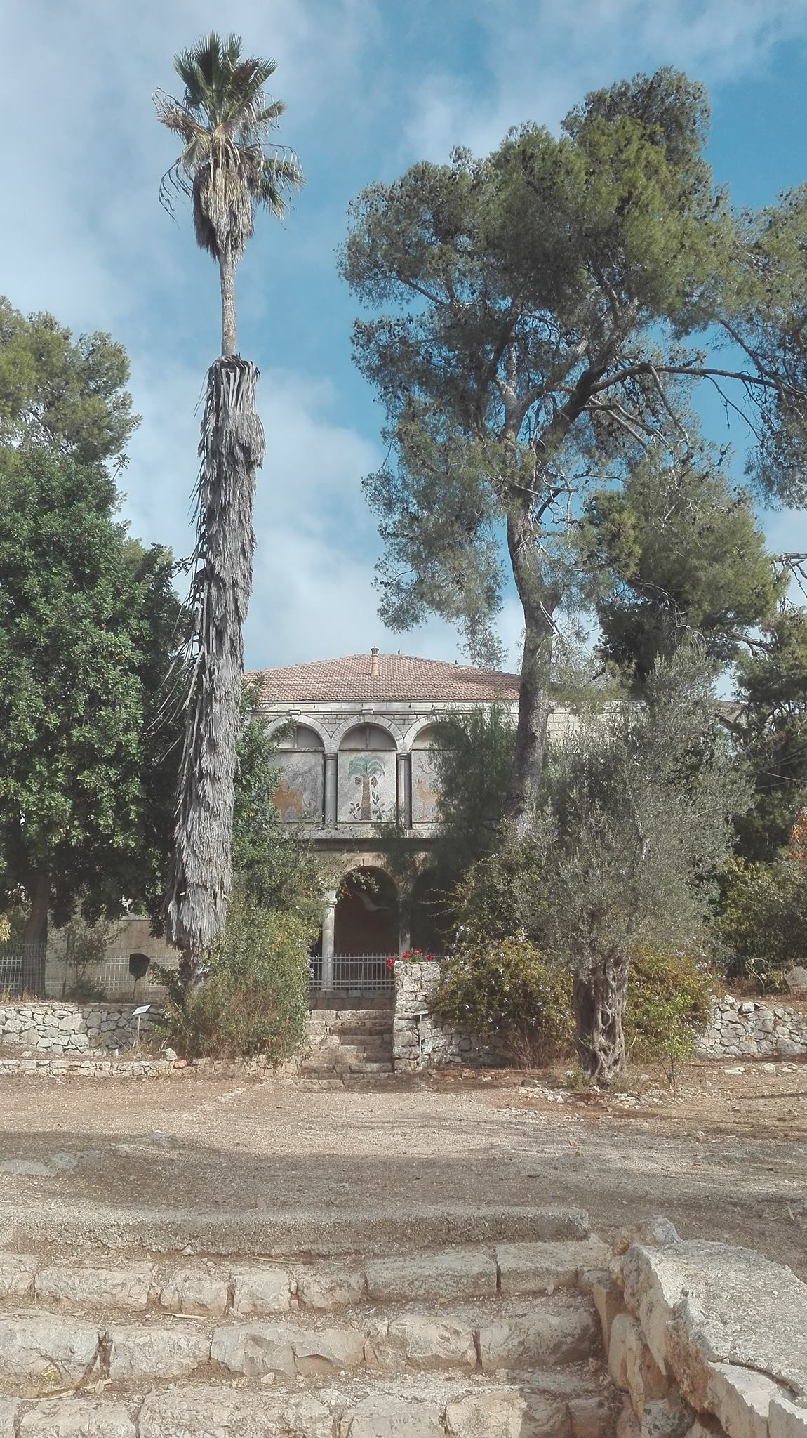 Museum of Natural History Jerusalem Emek Refaim